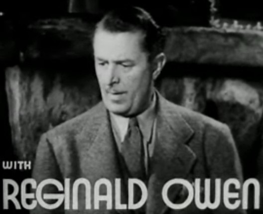 Cropped screenshot of Reginald Owen from the trailer for the film Petticoat Fever (1936).